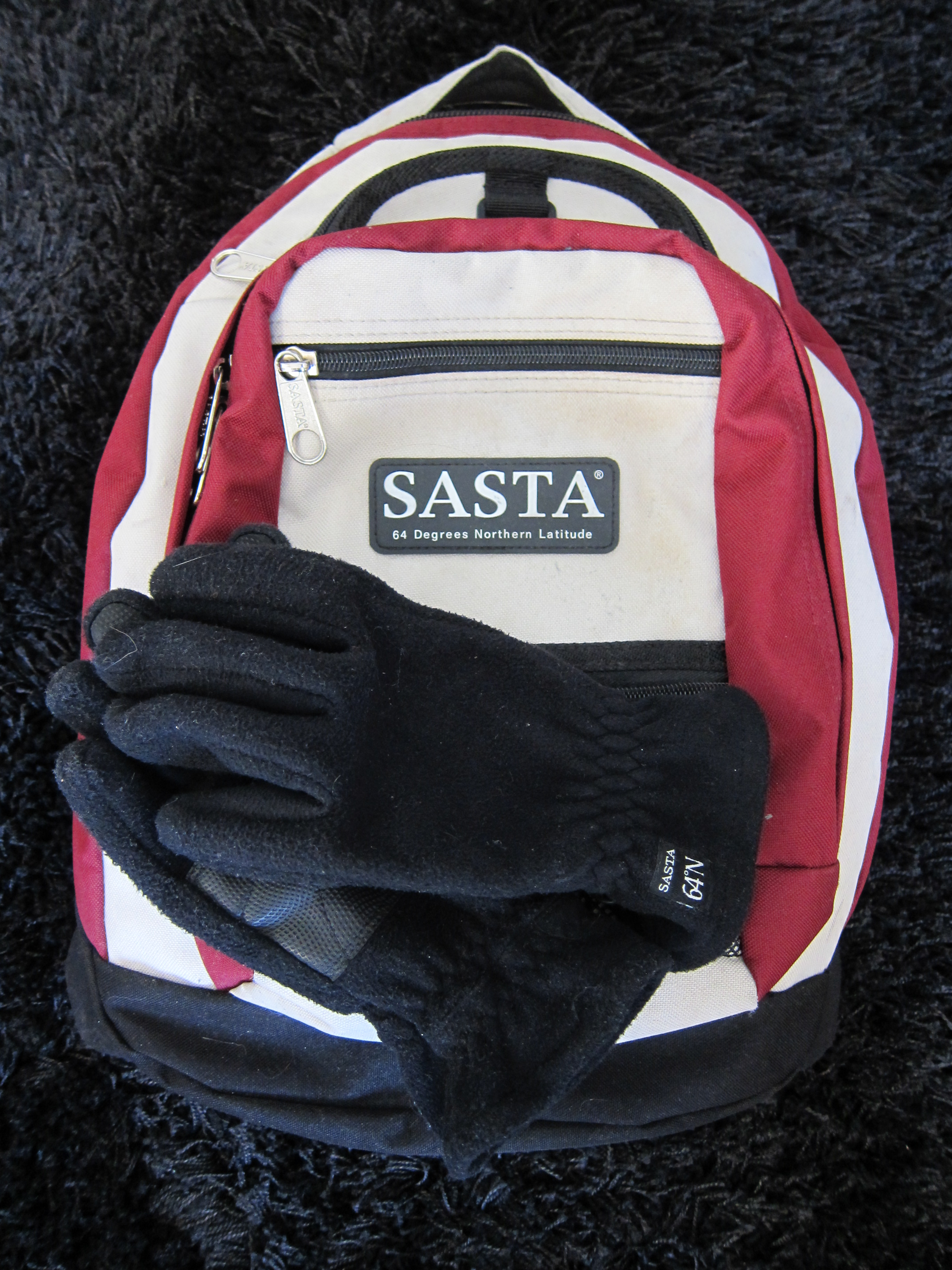 Sasta backpack and windproof gloves.